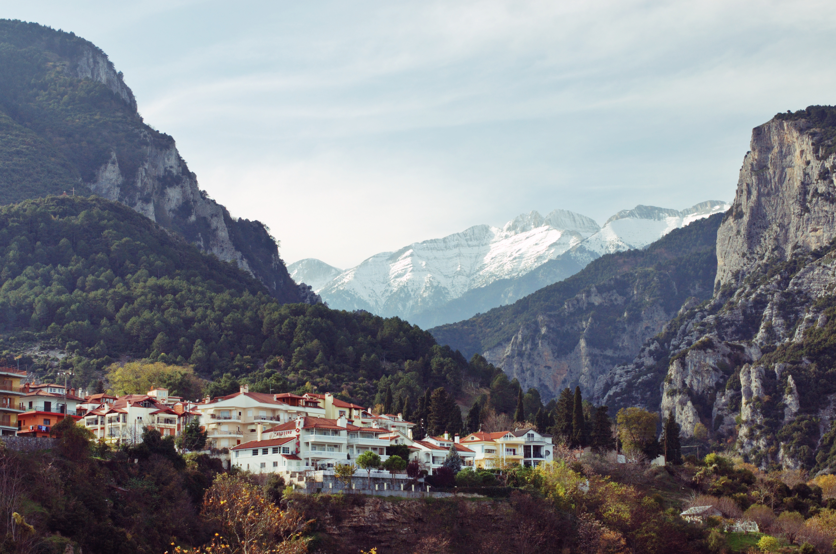 Mount Olympus view from Litochoro